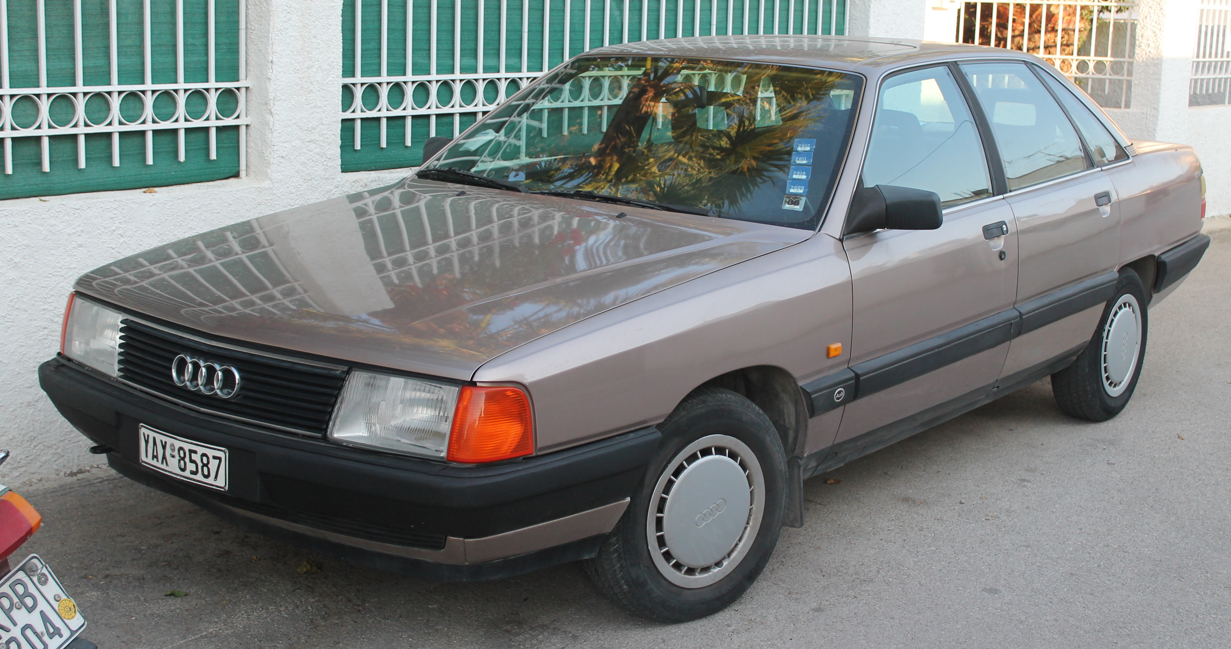 Audi 100 C3 (1988–1991)